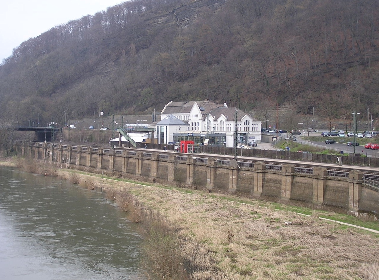 Porta Westfalica, Bahnhof Porta